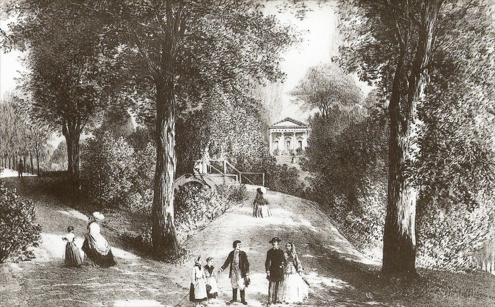 Greek House and the bridge in the park in Puławy, Poland